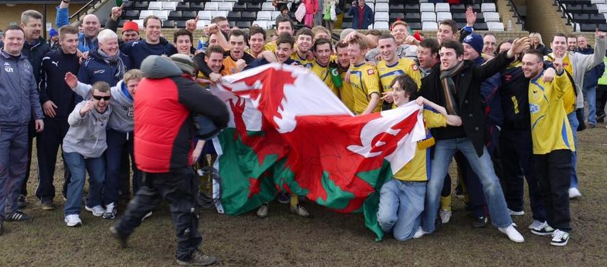 Barry fans and players celebrate 2013 Welsh Cup success in Flint